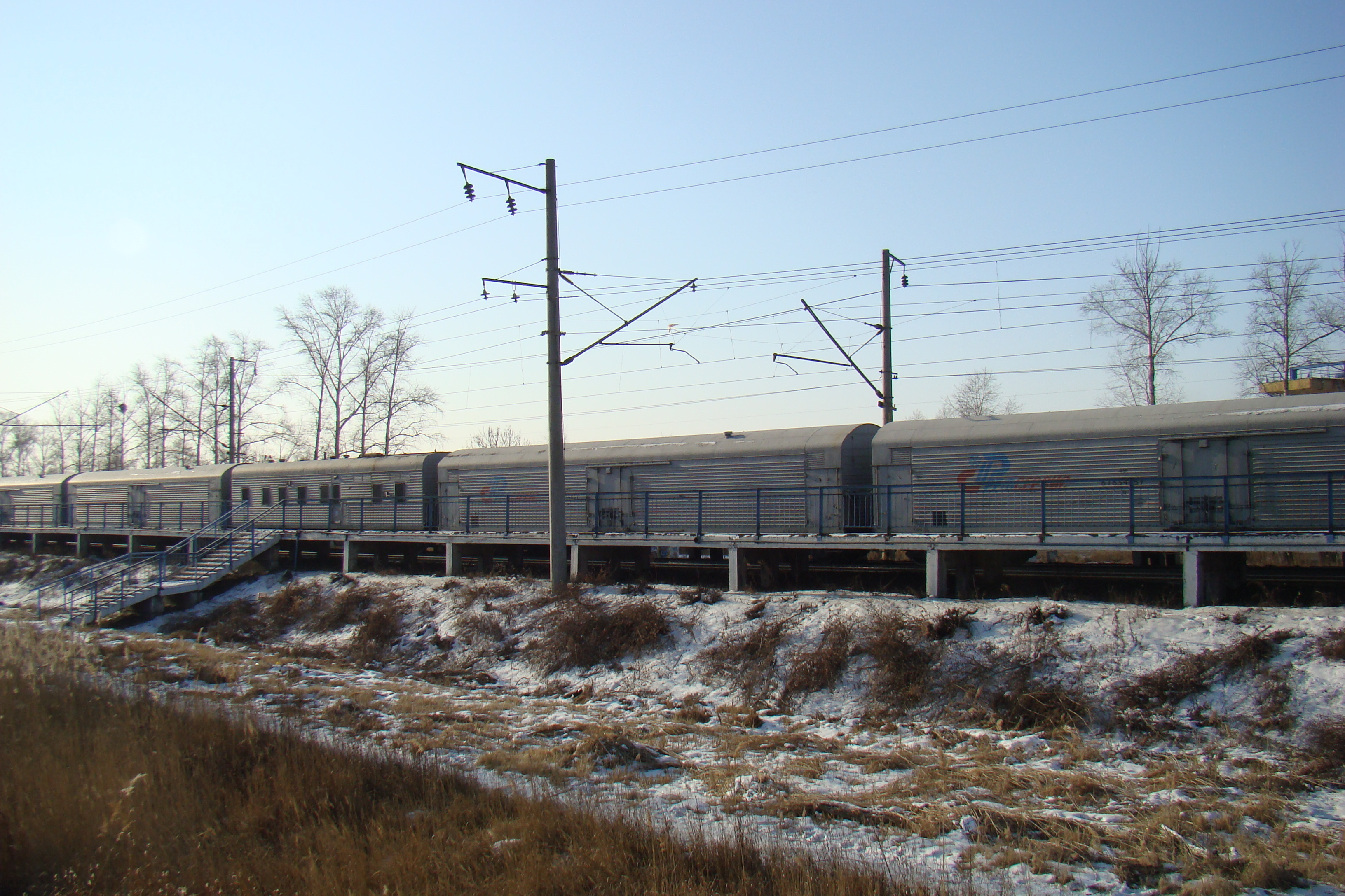 Group refrigerator rail cars: in the middle - diesel power station and refrigerating equipment; on the skirts - refrigerator cars